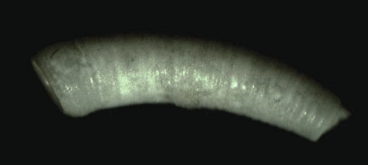 Caecum trachea (Montagu, 1803) , family Caecidae; Sicily